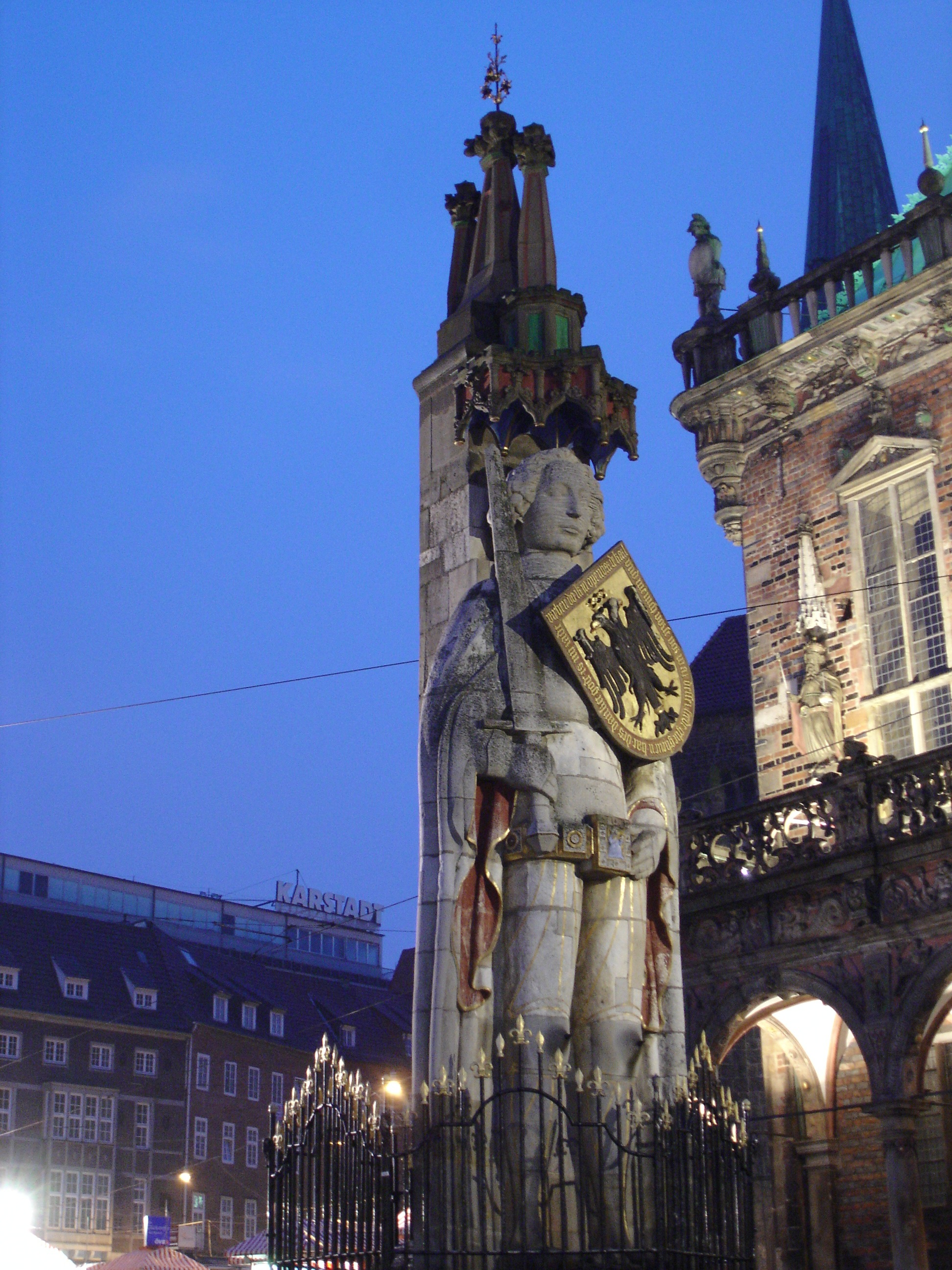 Bremen Roland in the early morning.